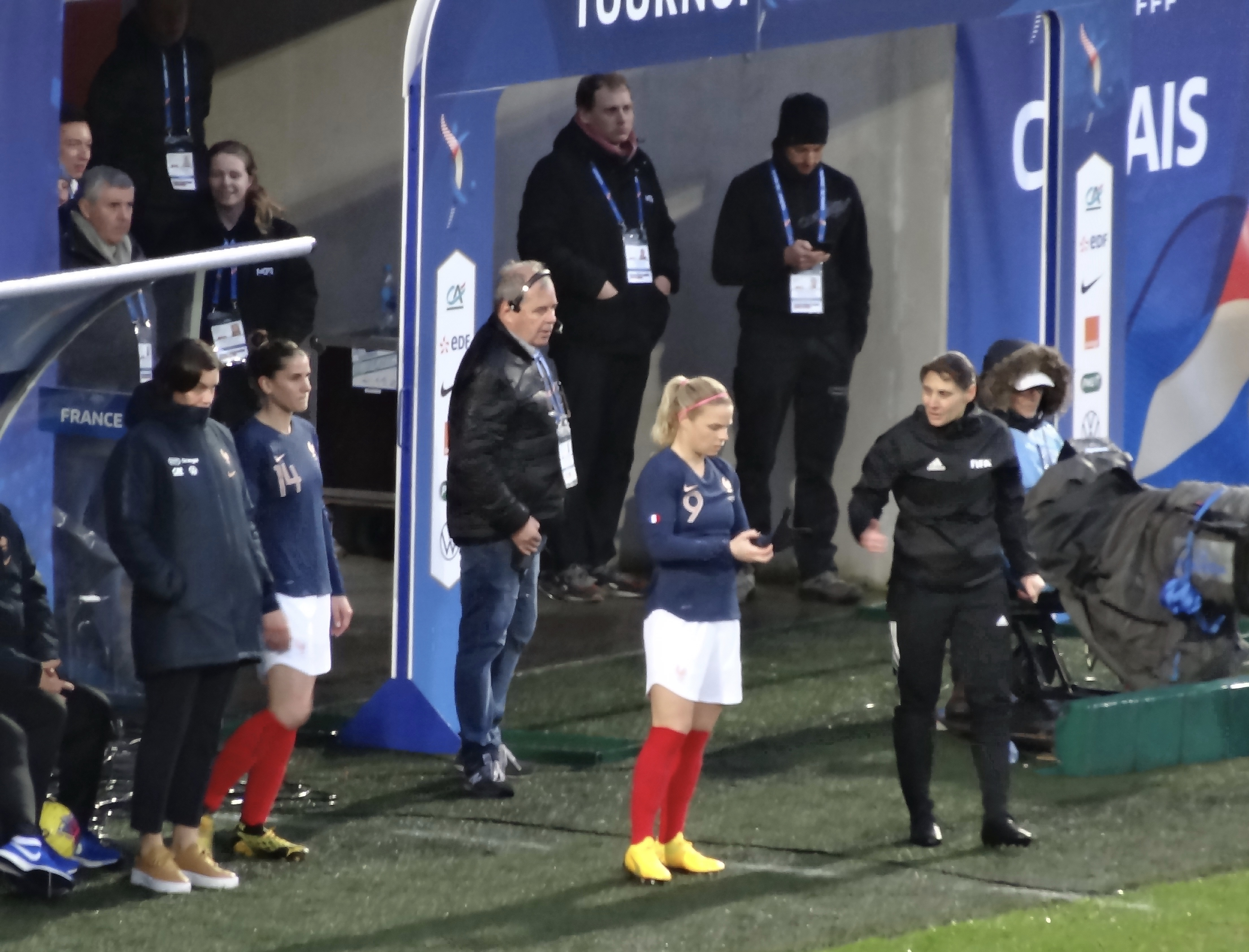 Diacre & Le Sommer (Tournoi de France 2020)